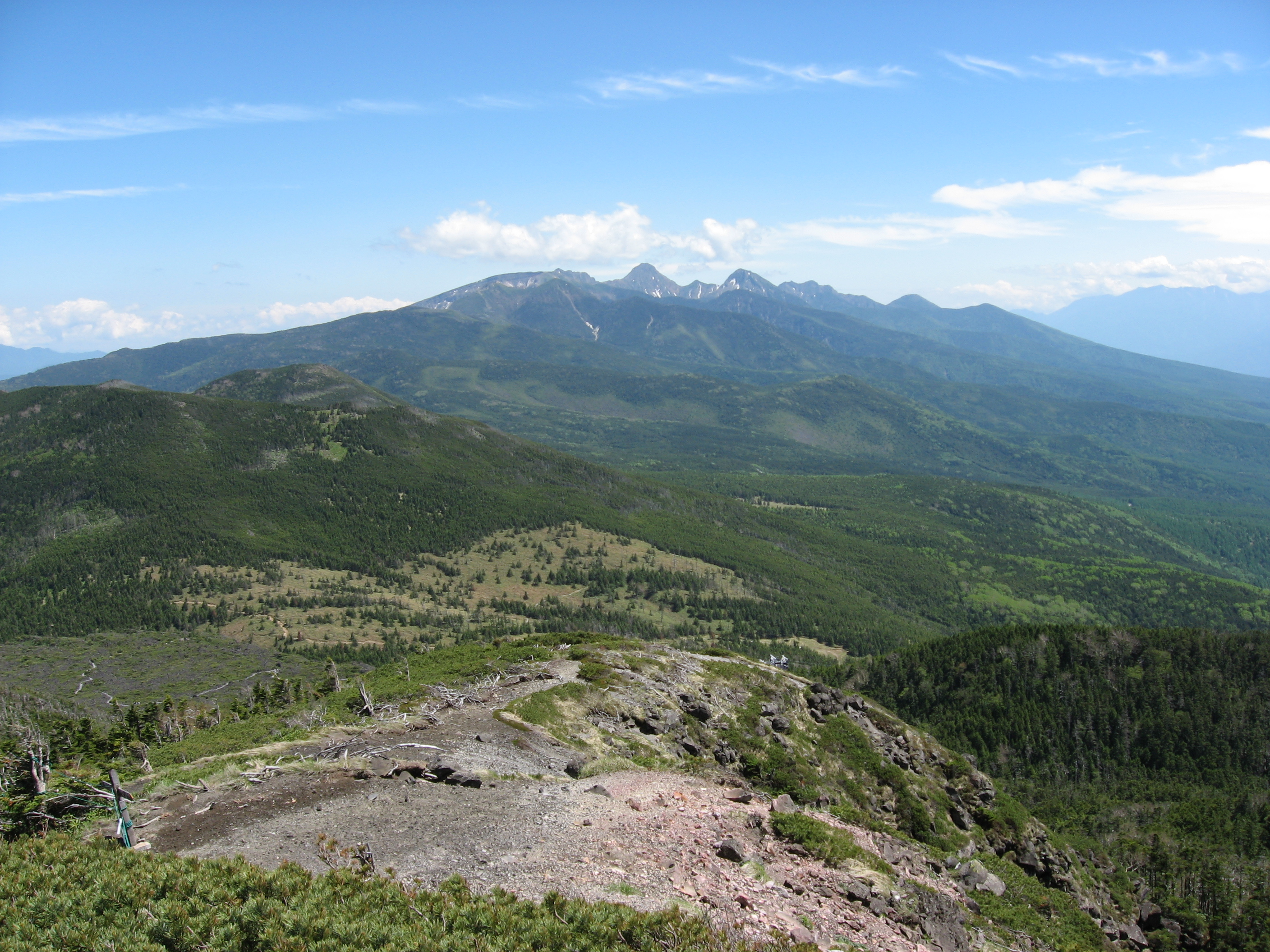 Southern Yatsugatake Mountains seen from Mount Kitayoko